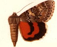 PLATE CXCVII.